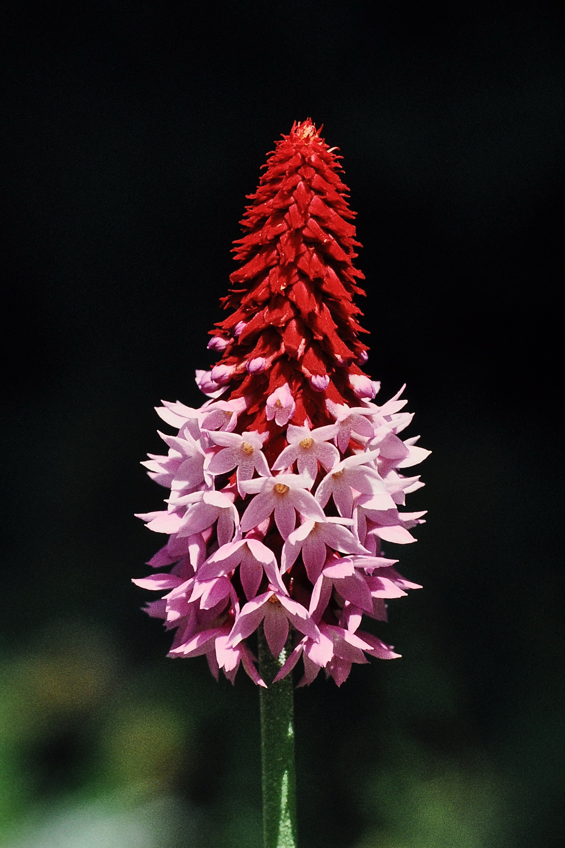 Orchid primrose